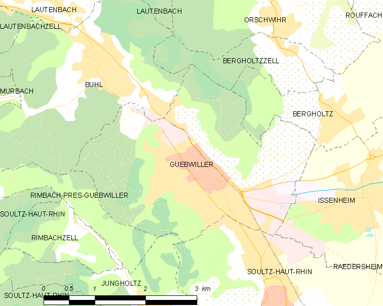 Map of French municipality